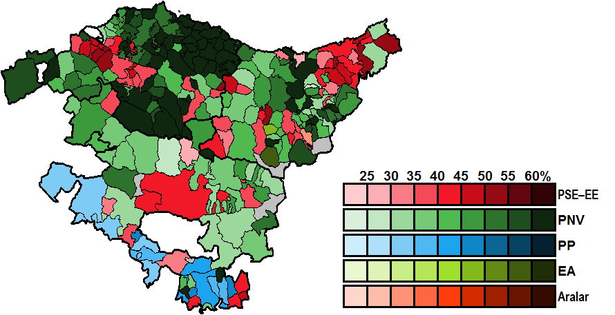 Most-voted party in Basque Country municipalities, showing vote share obtained, in the Spanish general election, 2008.